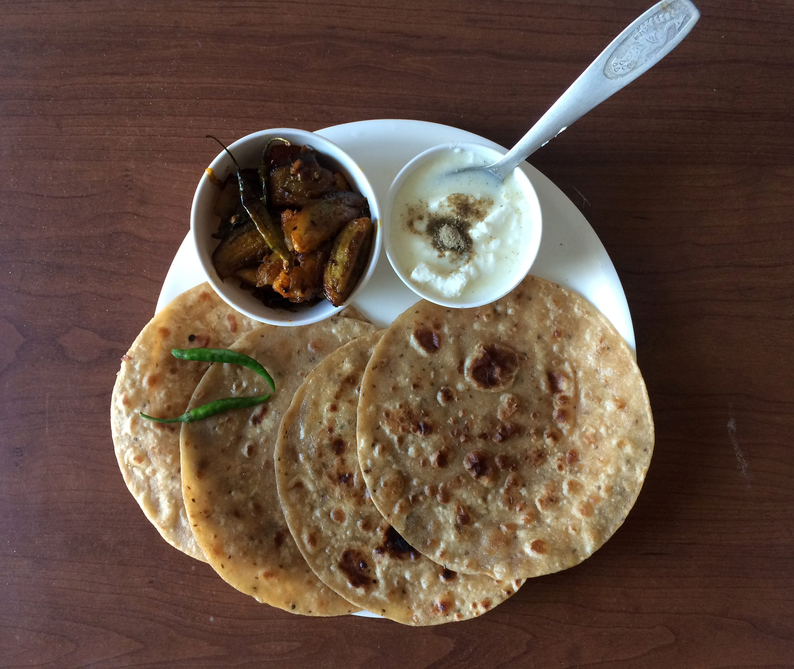 Roti with Baigan(Brinjal) subji and curd